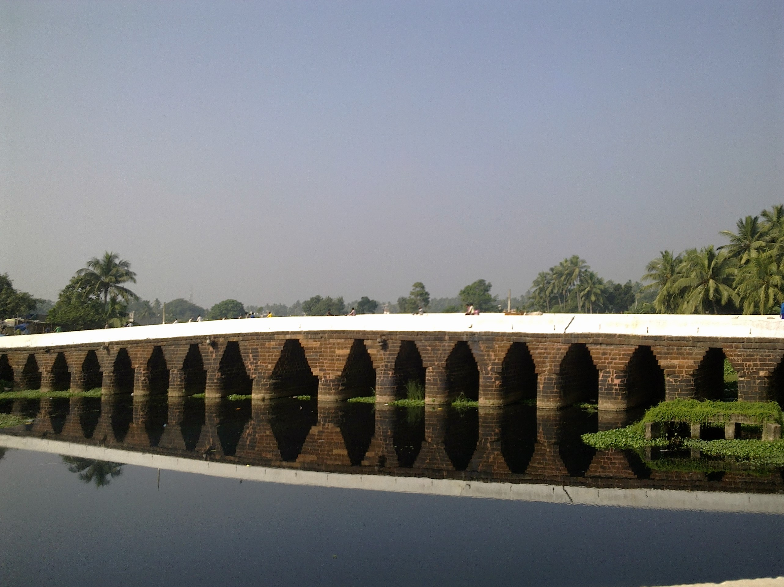 Bridge of eighteen openings over the Madhupur stream known as Athara Nala Bridge.